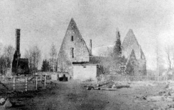 Lammi Church after the 1918 Finnish Civil War Battle of Lammi. The was burned by the German troops.